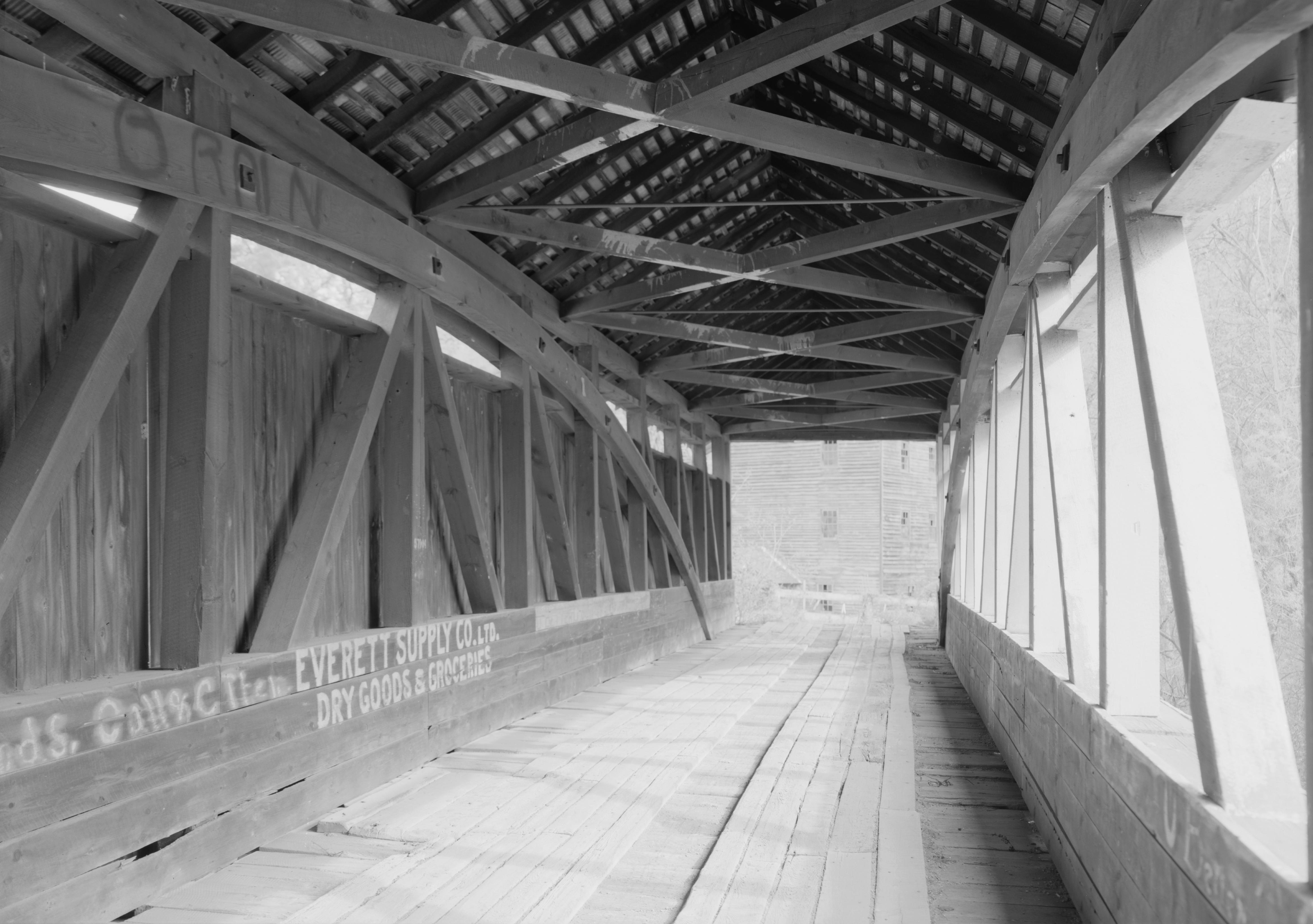 Interior of the Feltons Mill Covered Bridge, which carries Legislative Route 05021 over Brush Creek east of Bedford in East Providence Township, Bedford County, Pennsylvania, United States. Note Felton's Mill, which is visible past the end of the bridge. Built in 1892, this Burr arch truss bridge is listed on the National Register of Historic Places.